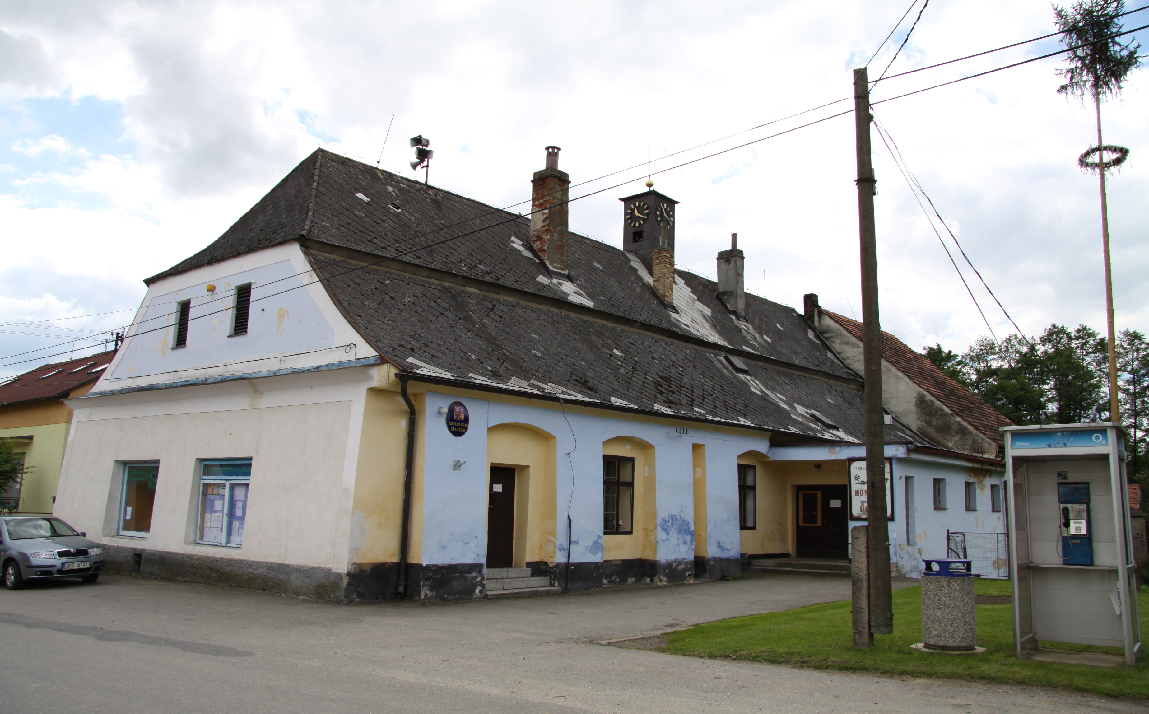 Kladruby village in Strakonice District, Czech Republic This photograph was taken within the scope of the 'Czech Municipalities Photographs' grant. - Google Maps - Google Earth